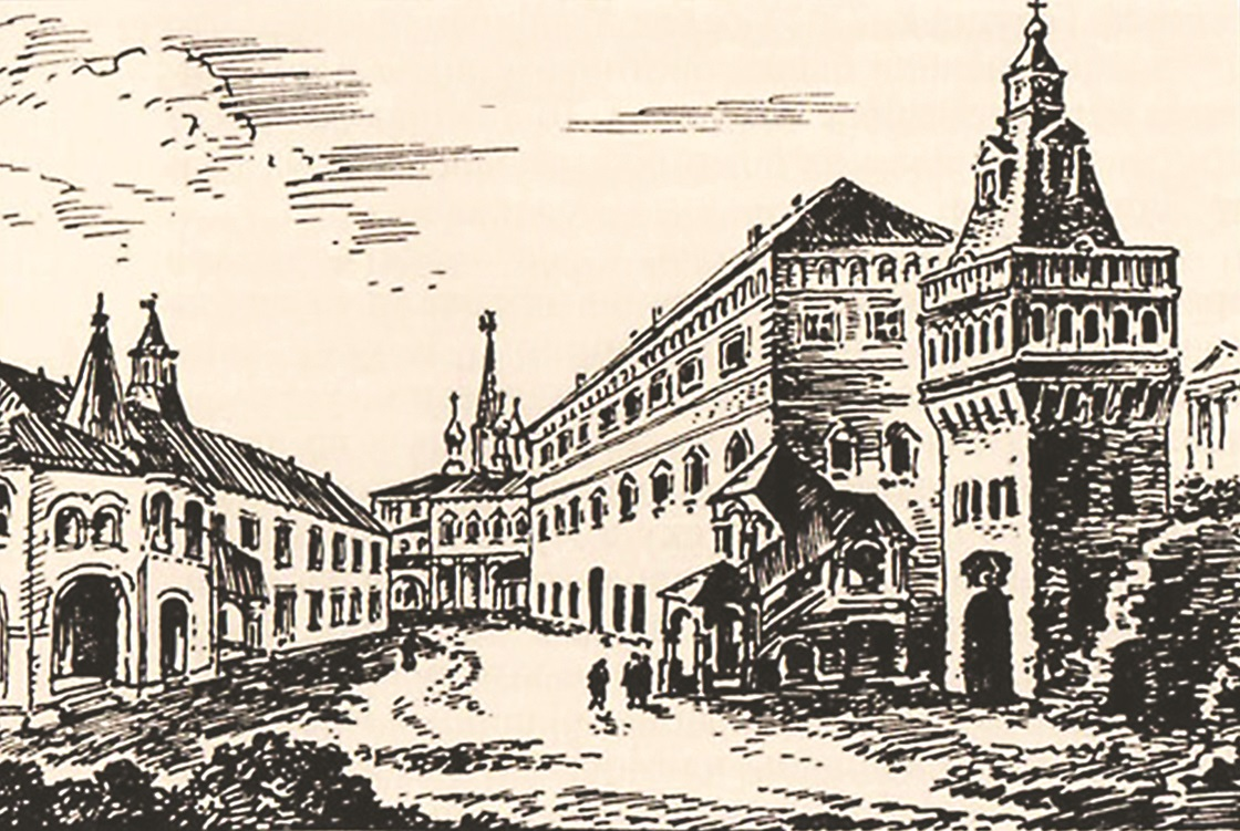 Building of Drugstore (Pharmacy) governmental agency (ru: Aptekarskyy Prikaz) in Moscow Kremlin (ca. 1600-ss, not existed now).